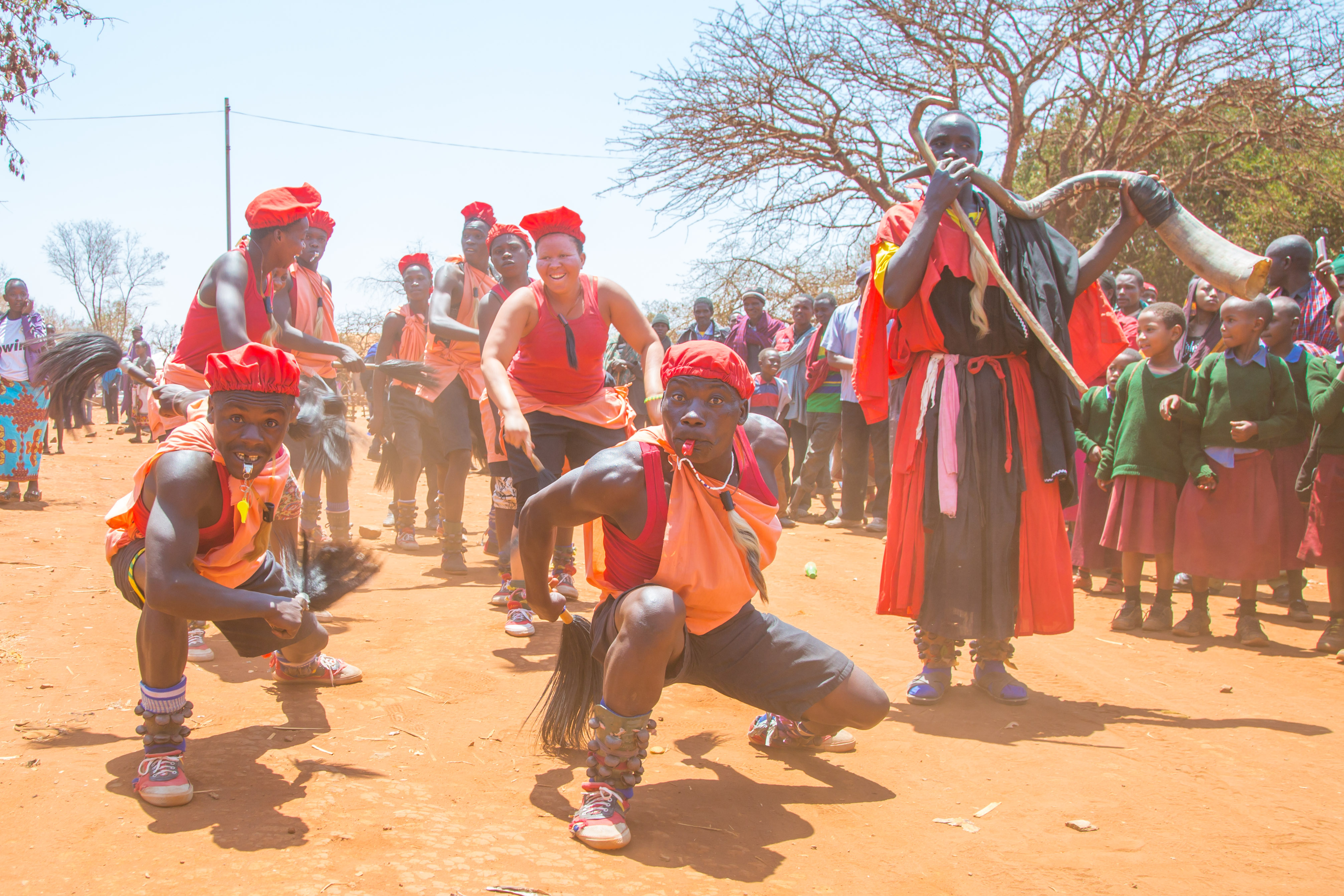 This is an image from Tanzania